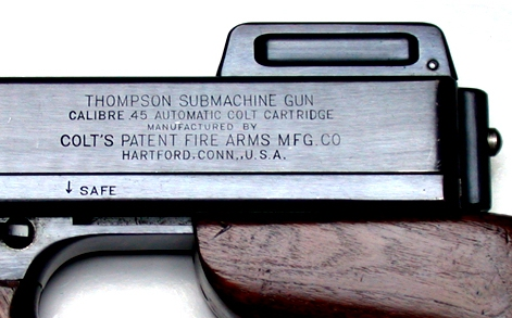 Thompson SMG, Colt address